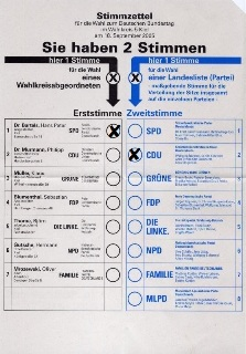 Voting ballot for the 2005 federal elections in Germany, Wahlkreis 5 (Kiel). This vote is valid.